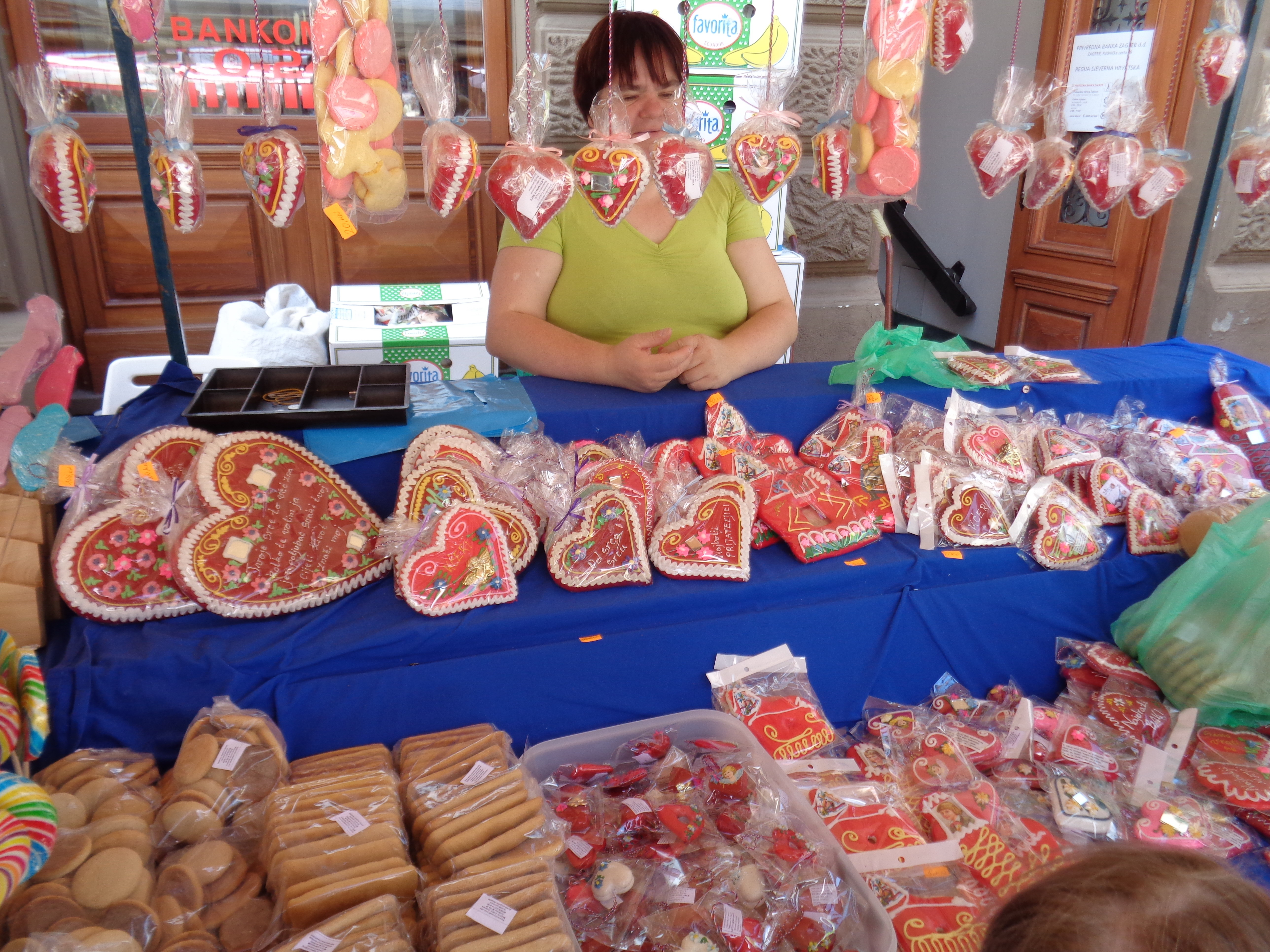 Porcijunkulovo, Catholic feast of Our Lady of the Angels and local festival in Čakovec, Croatia (2016) - licitar products (colourfully decorated biscuits - gingerbread)